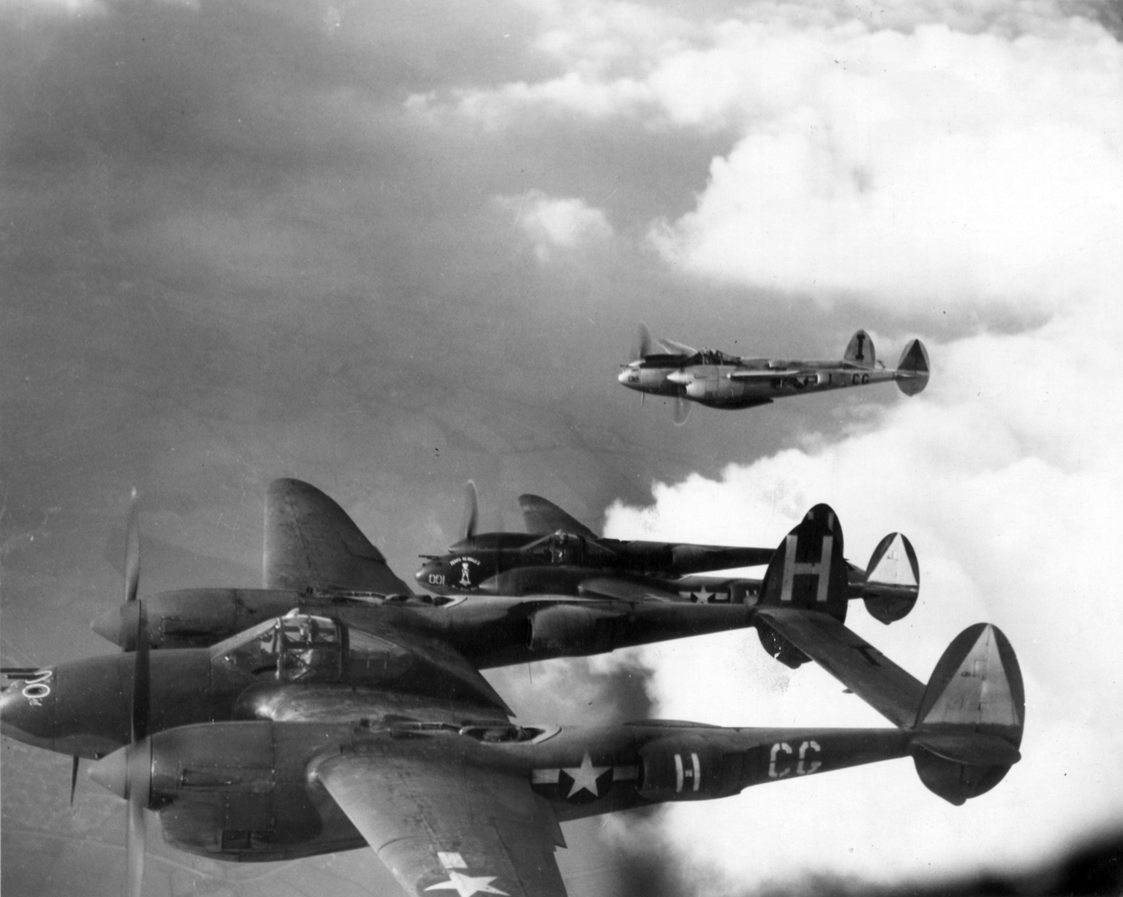 P-38Hs of the 55th Fighter Group, based at Nuthampstead Airfield, England.